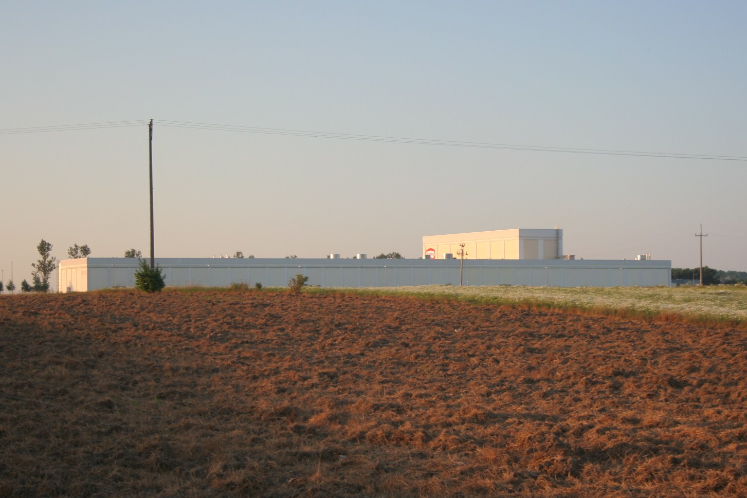 Dr. Oetker factory in Łebcz.